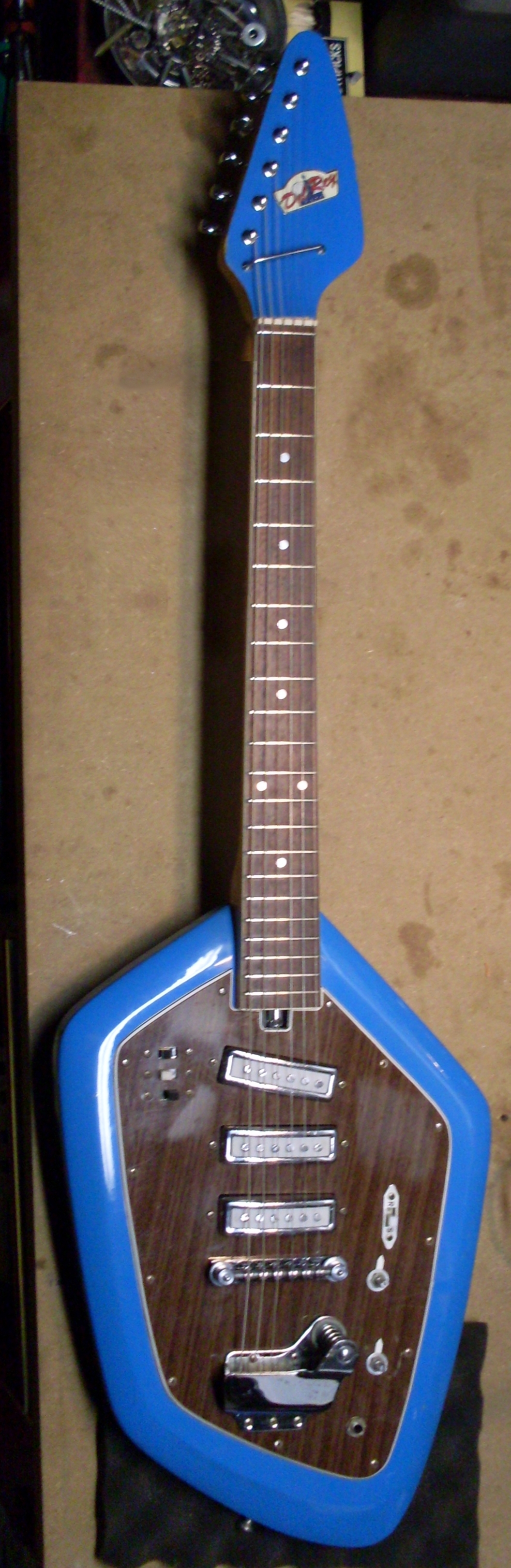 Teisco Del Rey EV-3T (Vox Phantom Copy) Completed Del Rey EV-3T on the bench.